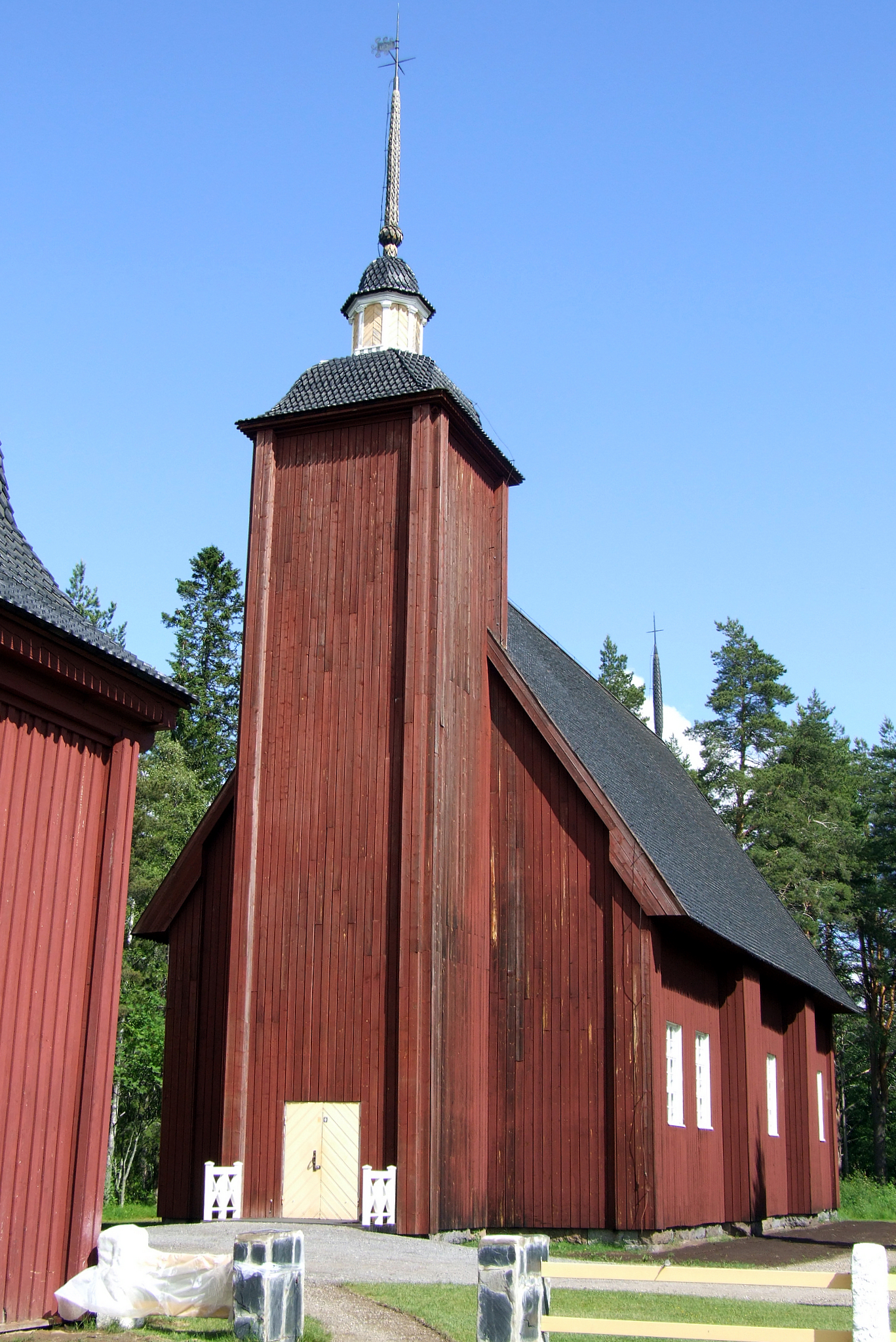 The wooden church of Utajärvi, Finland. The church was completed in 1762